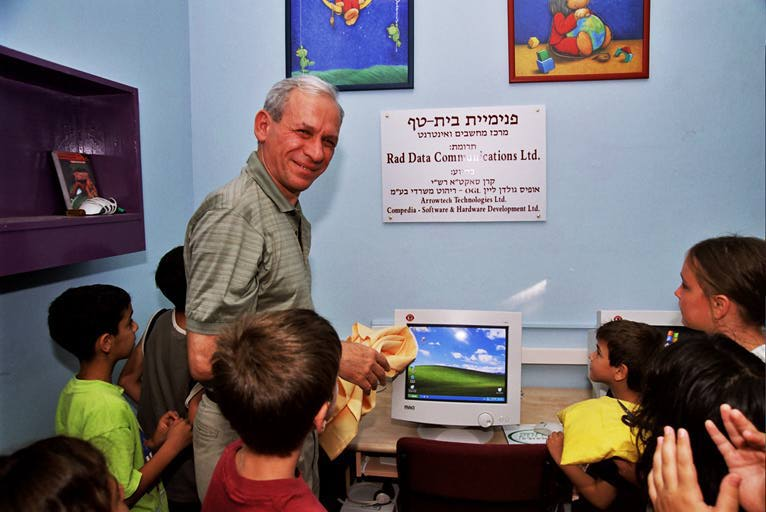 Zohar Zisapel at "Beit Taf"